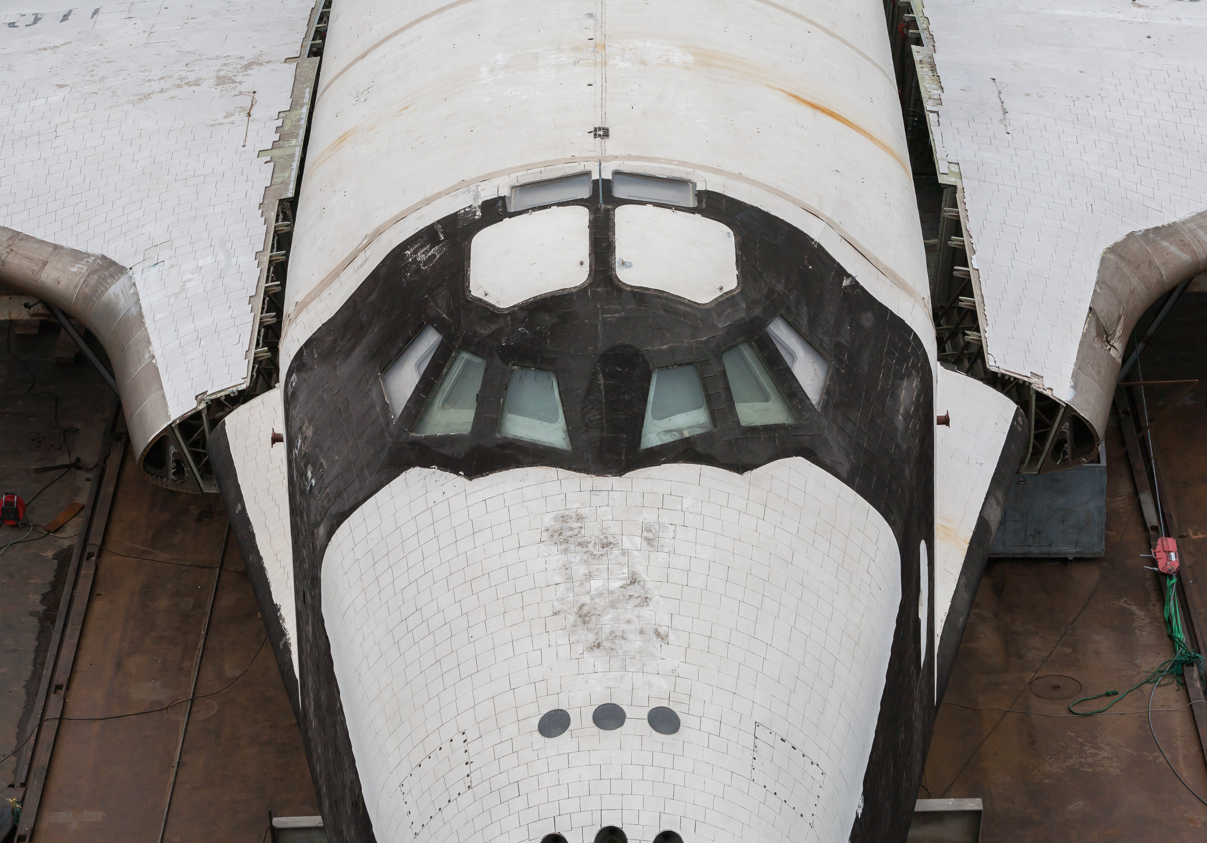 Cockpit of space shuttle test vehicle OK-GLI at transport on Rhine river – camera position: bridge Konrad-Adenauer-Brücke at Bonn